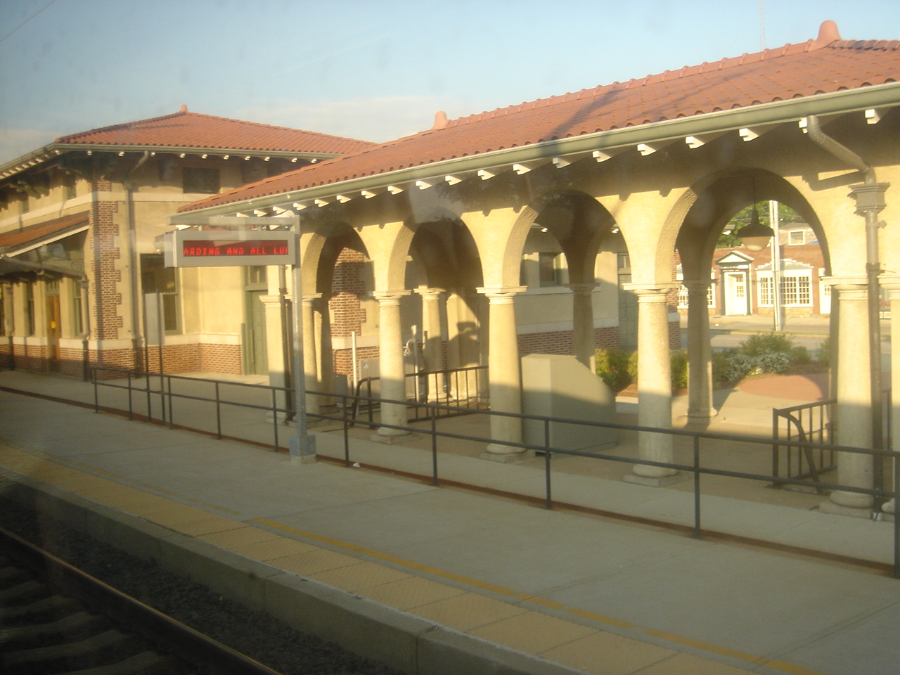 Westerly station as viewed from an Amtrak train